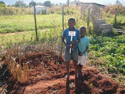 Photo taken by Melissa Powell on NEG to Swaziland